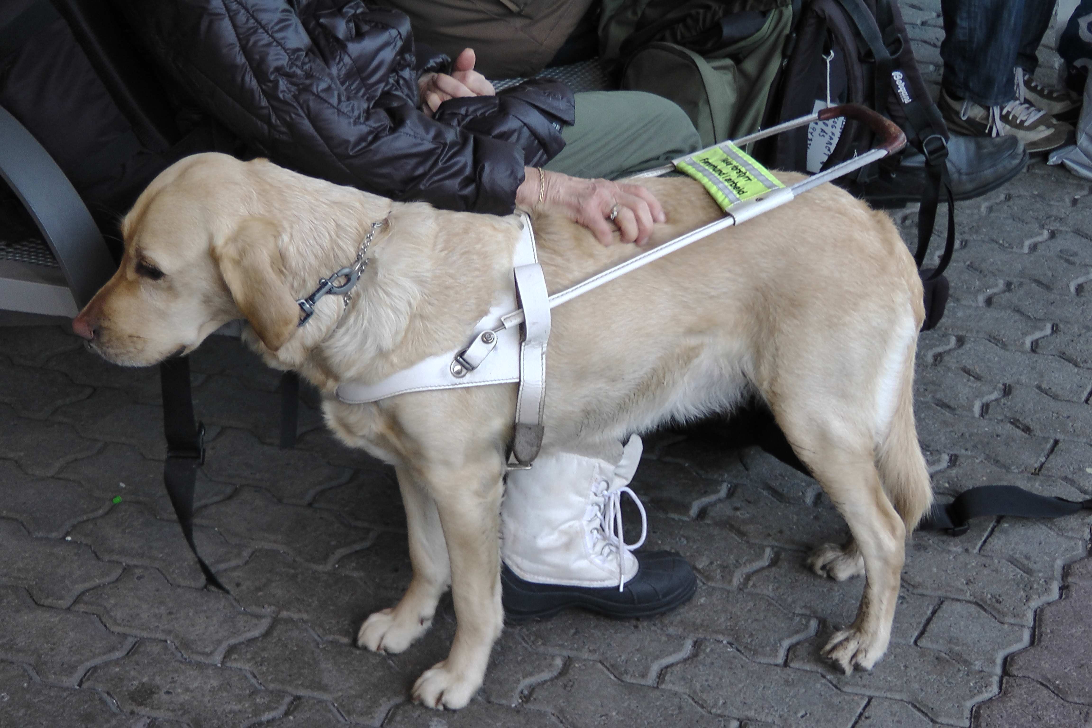 Service Dog in Oslo 2013